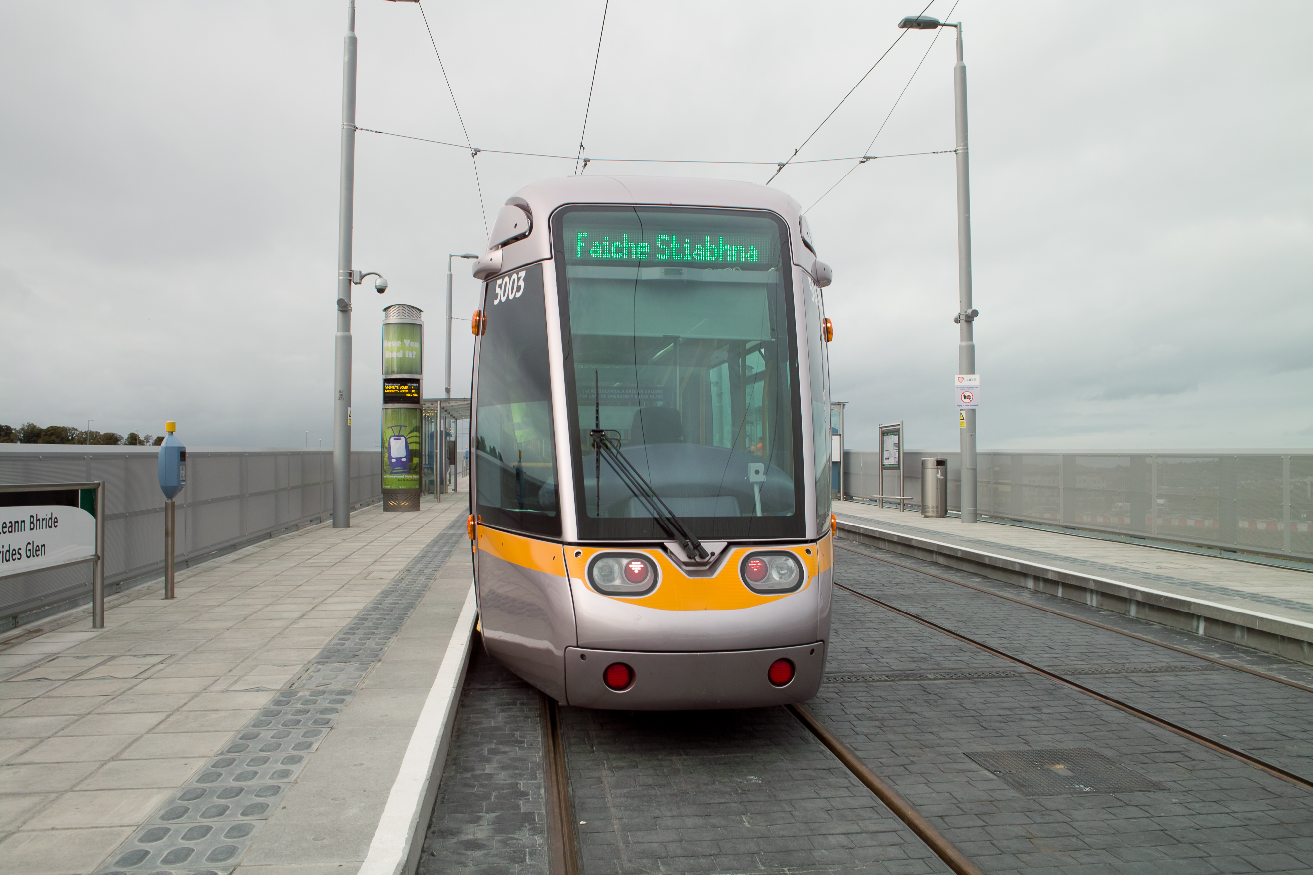 A Luas at the 2010 Terminus of the Luas Green Line.